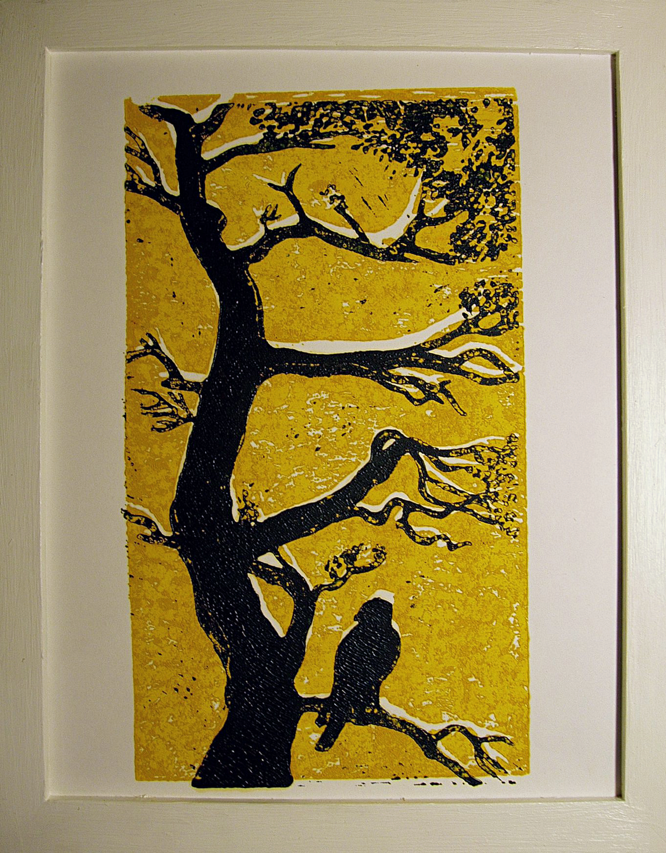 Two colour linocut to illustrate the linocut (graphics) article. Artist: Ivo Kruusamägi.